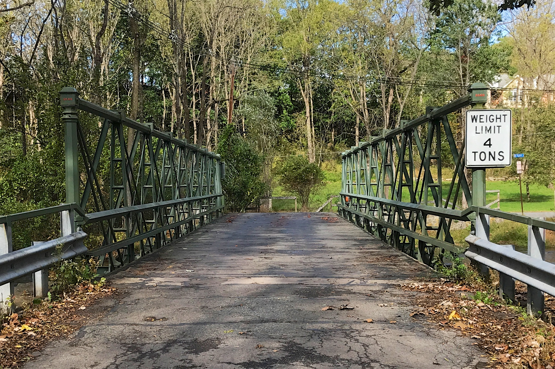 The New Hampton Pony Pratt Truss Bridge on Shoddy Mill Road crossing the Musconetcong River in New Hampton, New Jersey. Also contributing resource #18 of the New Hampton Historic District.